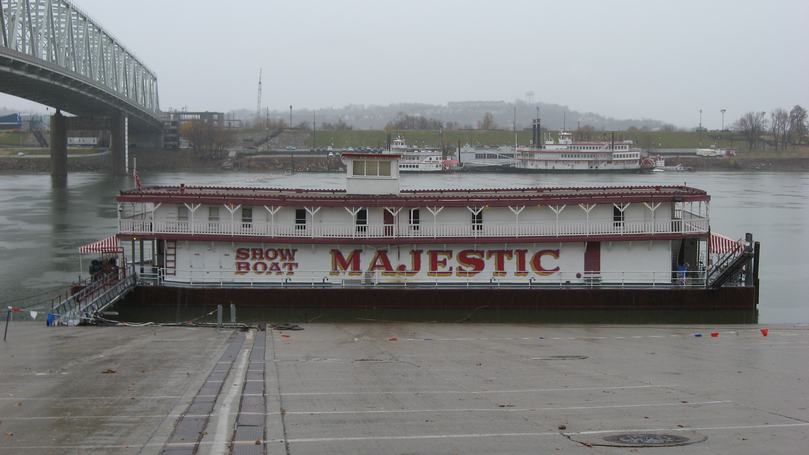 One side of the showboat Majestic, moored in the Ohio River off Mehring Way in Cincinnati, Ohio, United States. Built at Pittsburgh in 1923, it has been declared a National Historic Landmark.